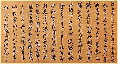 Certificate of Buddhist Spiritual Achievement for Enni (円爾印可状, Enni inkajō). Approbation certificate for the Japanese monk Enni Ben'en. One hanging scroll, ink on paper. Located at Tōfuku-ji, Kyoto, Japan.